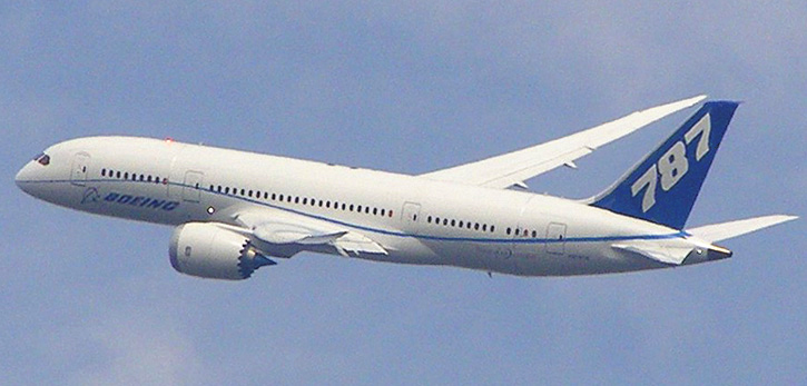 N787BX the third prototype Boeing 787 at the 2010 Farnborough Airshow.